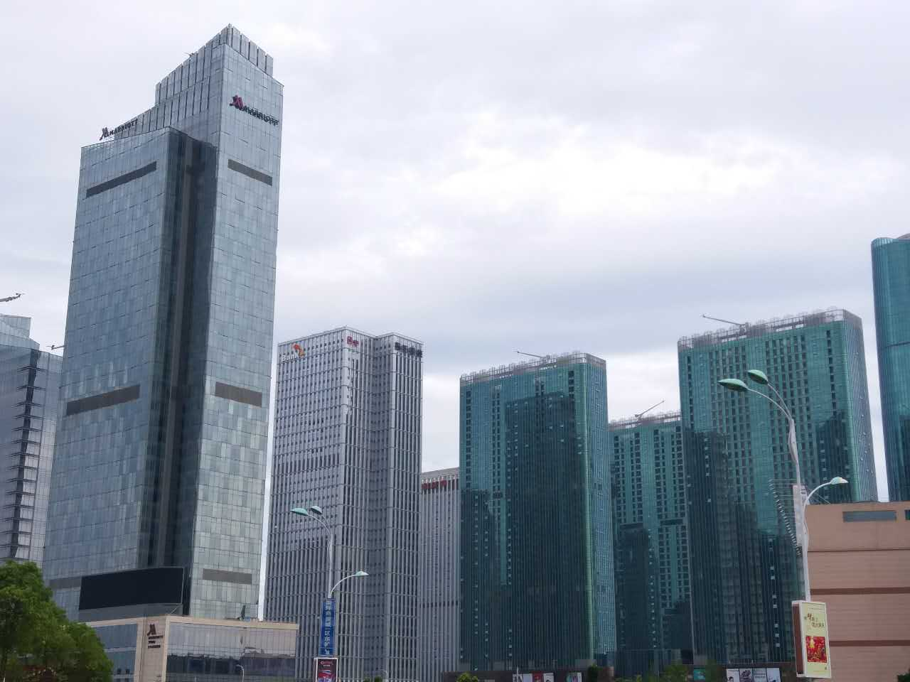 Mariott hotel in Yiwu